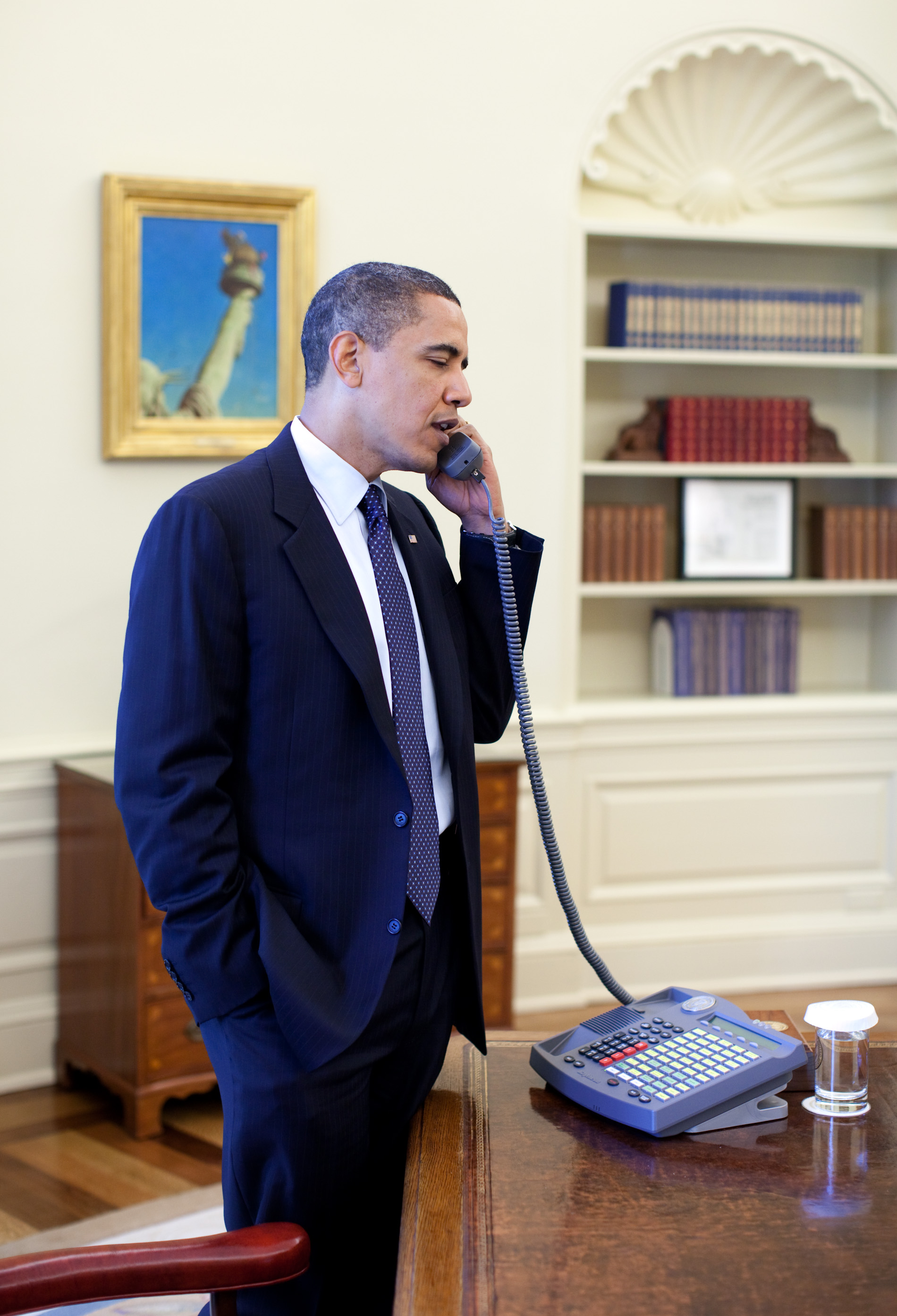 President Barack Obama speaks by phone to Senator Arlen Specter of Pennsylvania on April 28, 2009 about the Senator's decision to become a member of the Democratic Party.